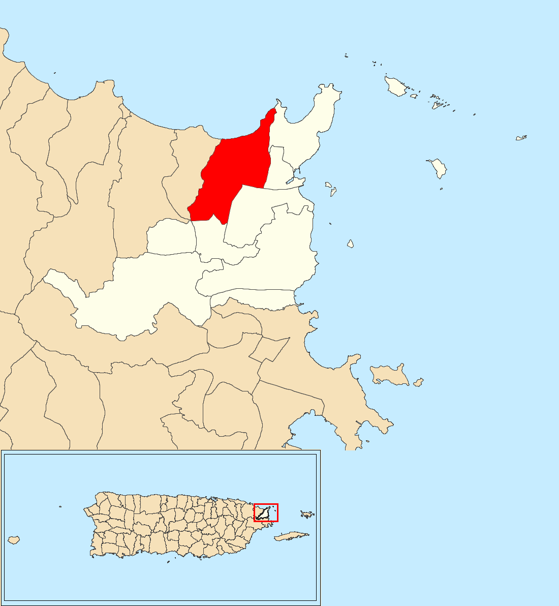 Quebrada Fajardo, Fajardo, Puerto Rico locator map